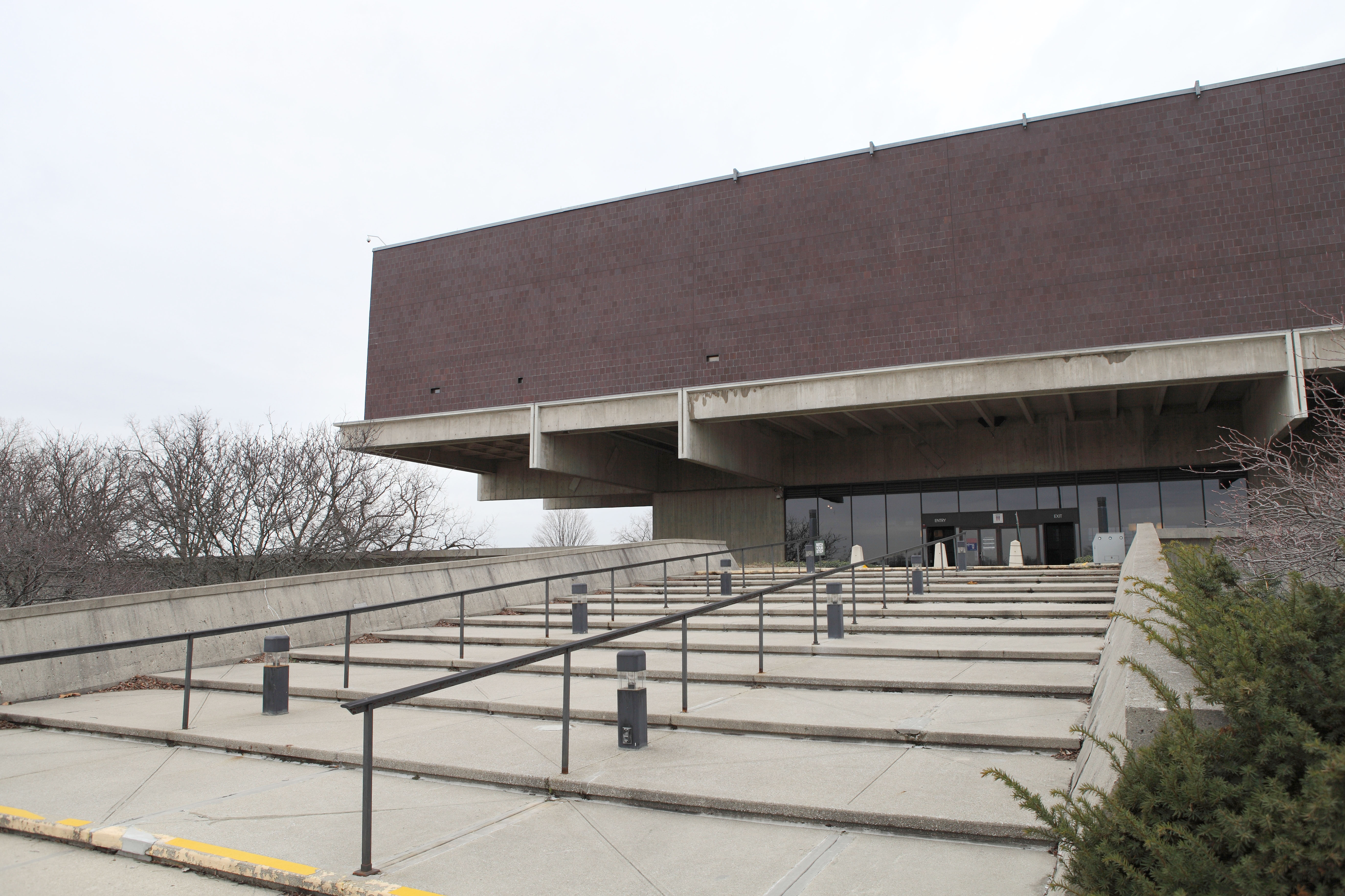 The Ohio History Center, headquarters of the Ohio Historical Society, in Columbus, Ohio. See